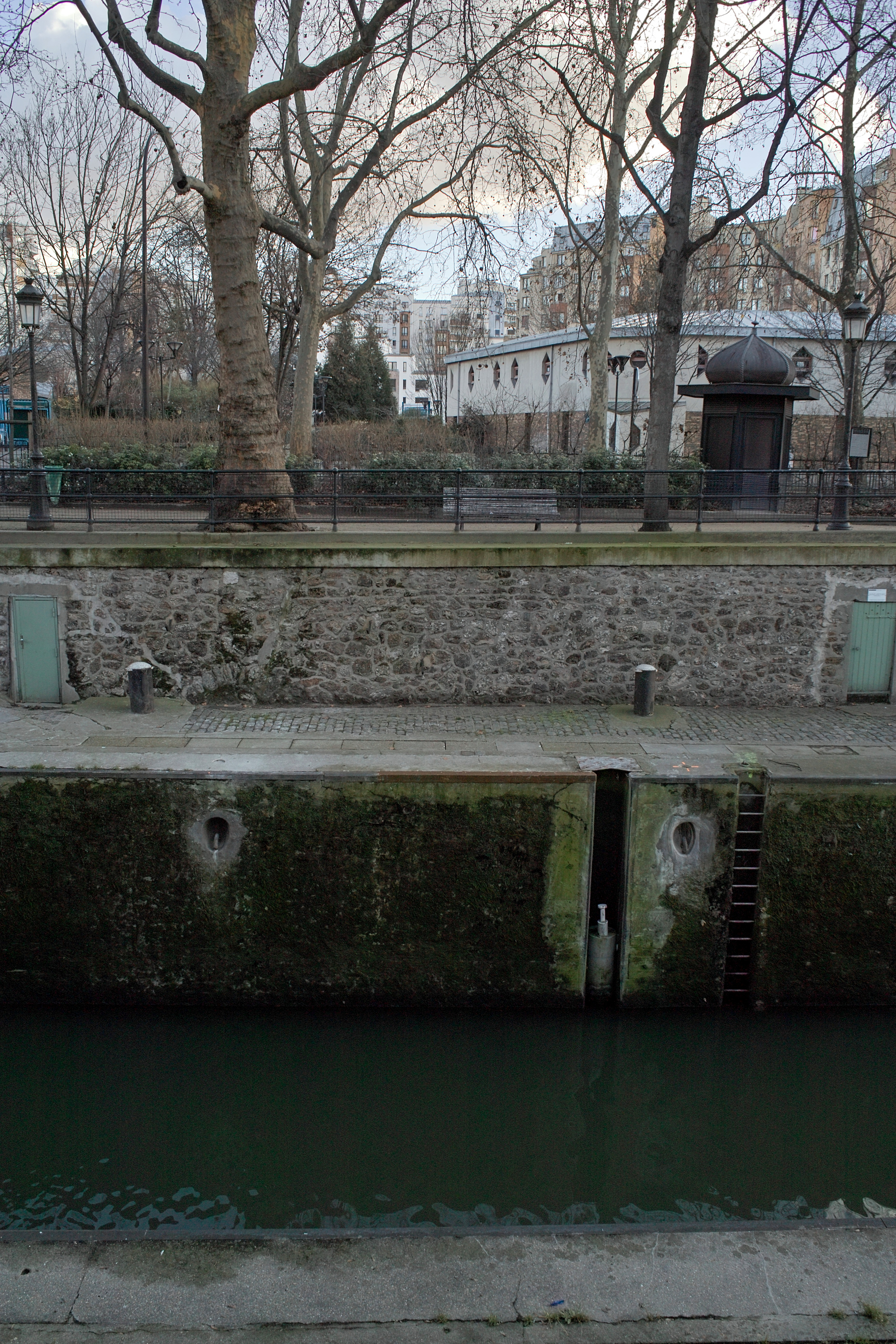 Ècluse des Morts, Canal Saint-Martin, Paris